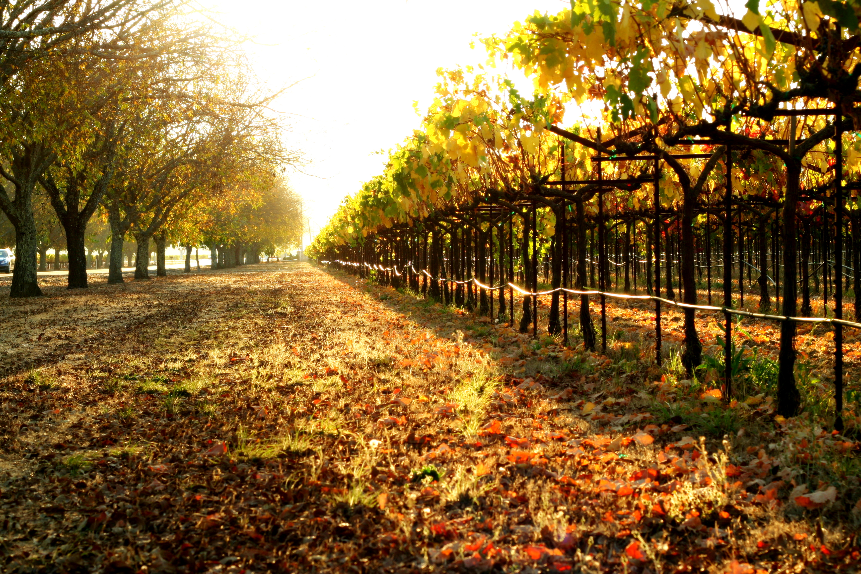 From author:Views from Napa, CA. This shot taken from Oak Knoll Road. This style of trellising is a type of Lyre spur training that creates essentially a "U-shape" with the vines, keeping the grapes high off the ground.